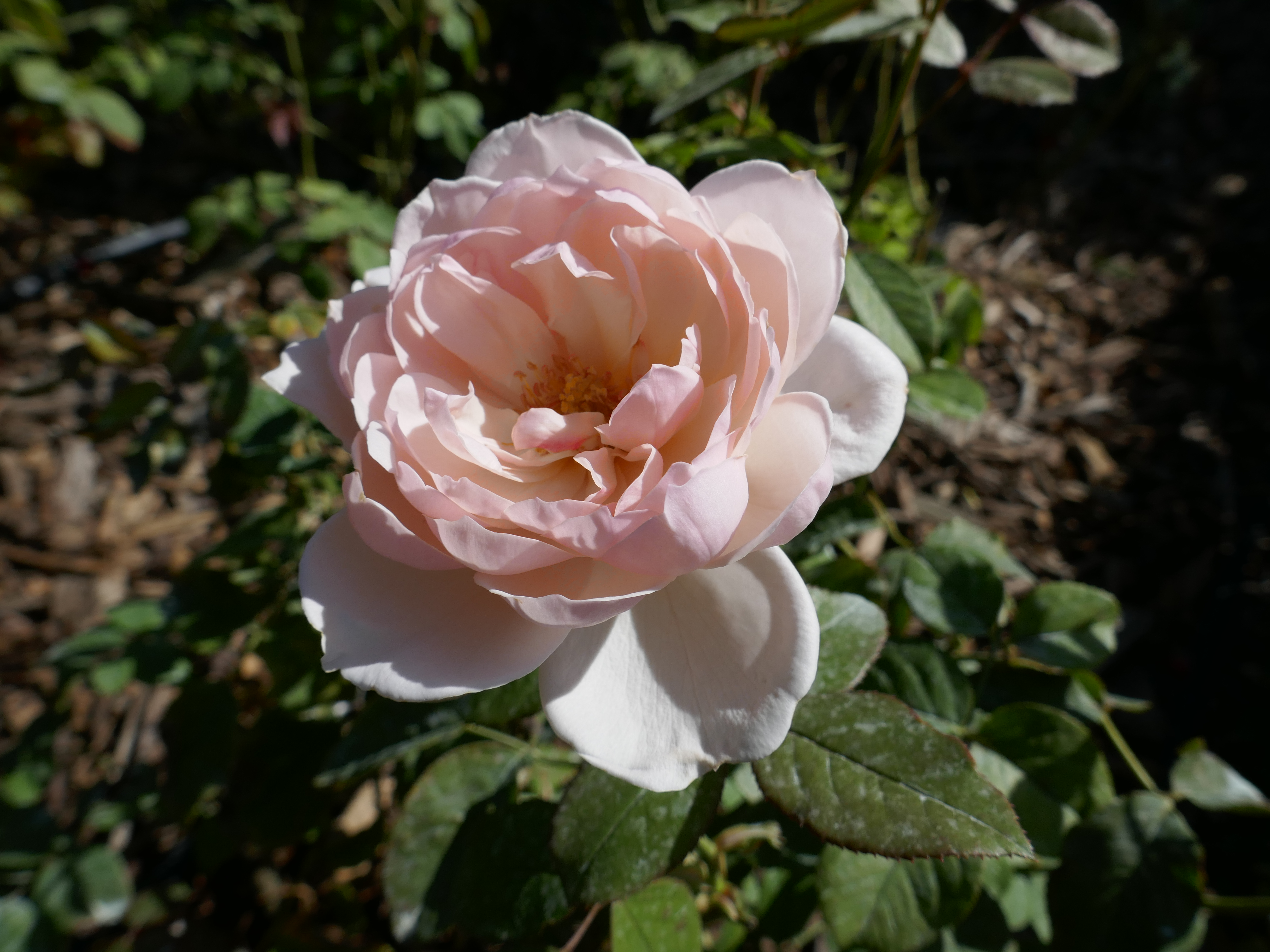 Rosa 'Madame Figaro' (Delbard, 2001) flowering in the rose garden of the Fontfroide Abbey (France)